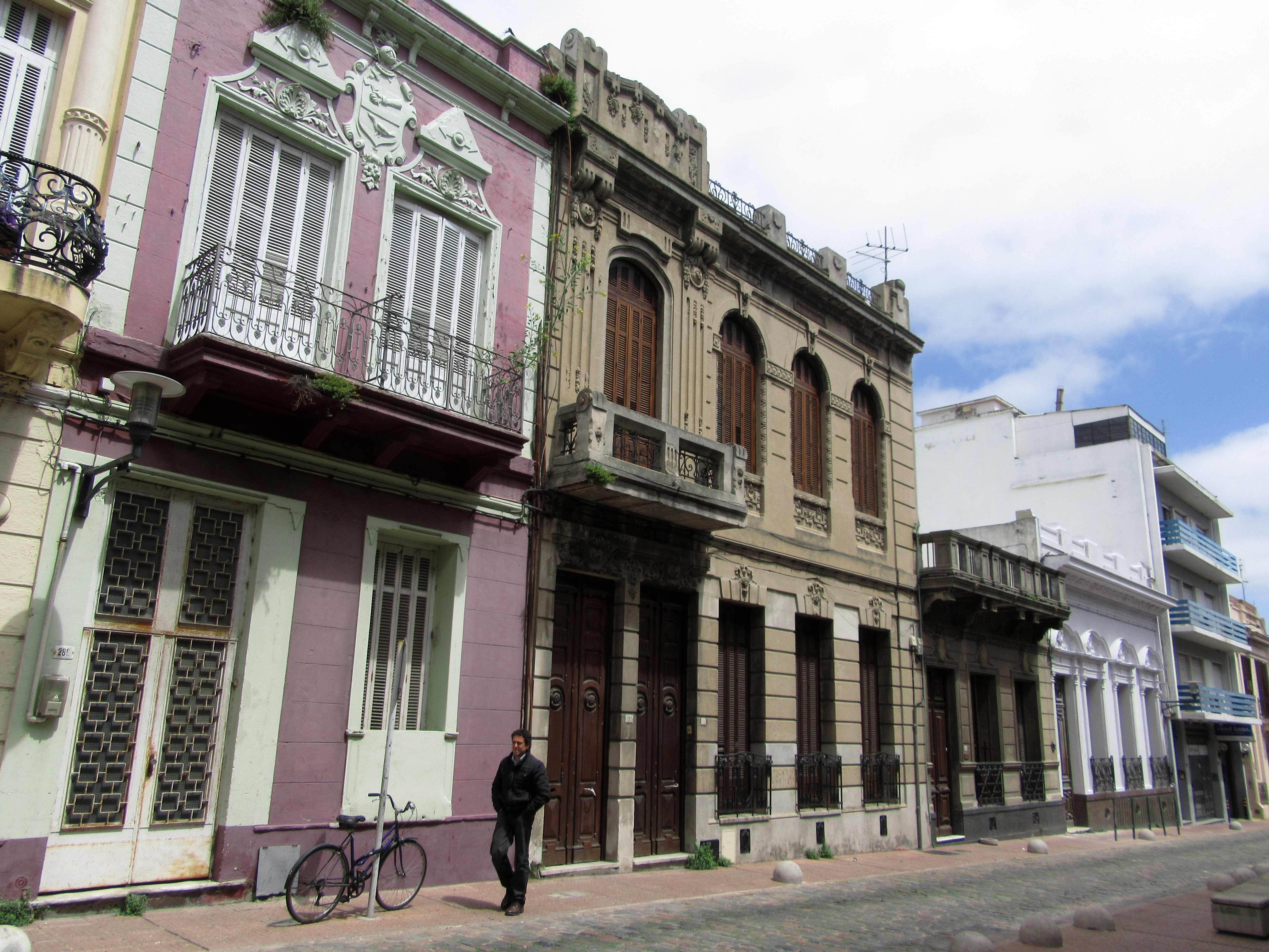 Montevideo